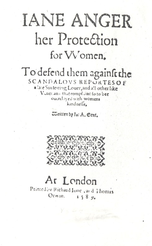 Cover page of the pamphlet